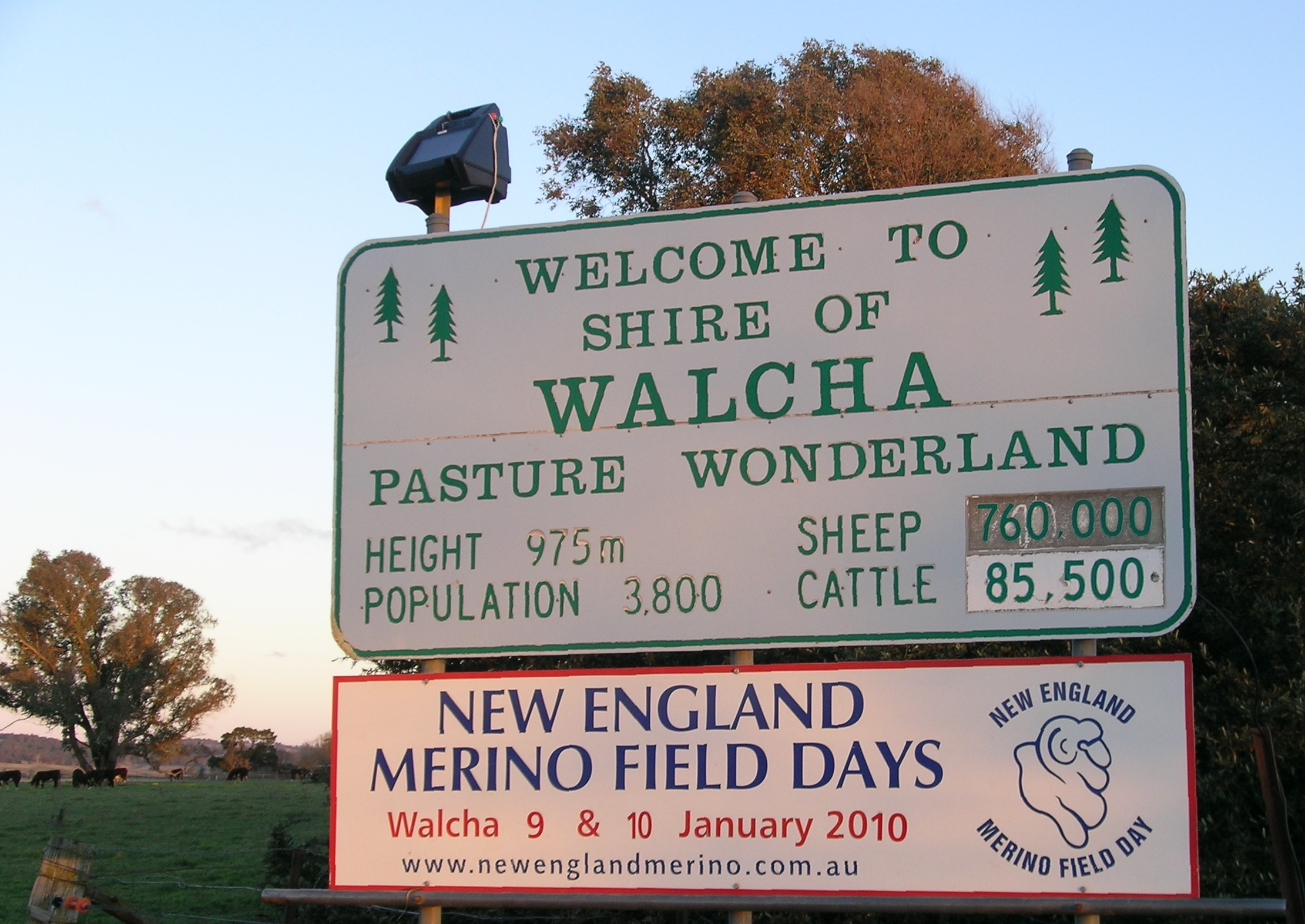 A sign that appears on each of the main roads near the start of the Walcha Shire boundaries.